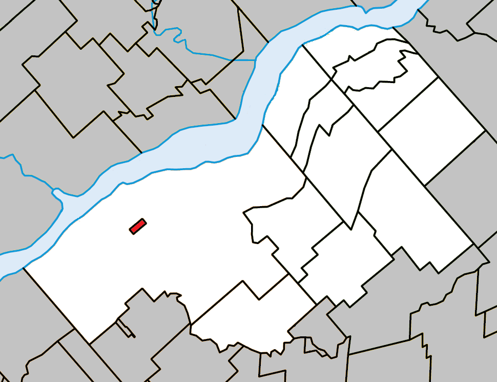 Location of Wôlinak, Quebec within Bécancour Regional County Municipality.